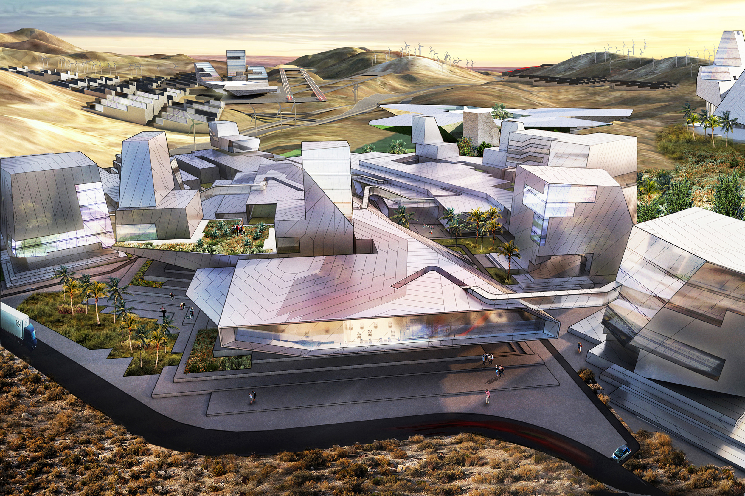 Blockchains City by Tom Wiscombe Architecture + EYRC Architects